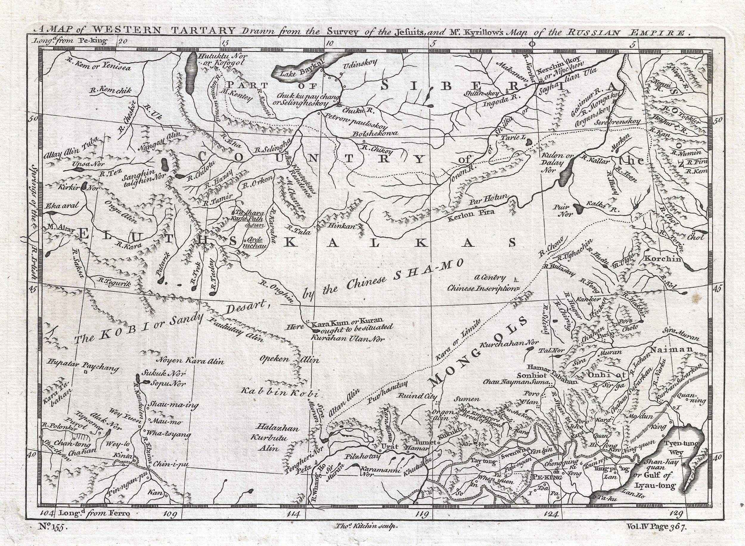 A fascinating 1747 European mapping of the Gobi Desert and the eastern portion of the Silk Route region by Thomas Kitchin. Covers from Lake Baikal in the north as far south as Beijing, east to the Gulf of Lyau-tong (Yellow Sea), and west as far as Chan-tong. When this map was drawn the geography of this region was very poorly understood by Europeans. This map is generally derived from Jesuit missionary reports and the large map of the Russian Empire prepared by Kyrillow. Depicts the Great Wall of China, various caravan routes, supposed rivers and settlements, and various Nor (or lakes) in the region. This wonderful map offers a wealth of valuable detail for anyone with an interest in the eastern portions of the ancient Silk Route. Notes the supposed site of Kurahan Ulan Nor right in the center of the Gobi Desert. This was supposedly the ancient capital of the Mongol Empire until Kublai Khan moved it. Also notes a number of ruined cities and other places of interest. Prepared as map no. 155 by T. Kitchin for Thomas Astley's A New General Collections of Voyages and Travels , volume IV.